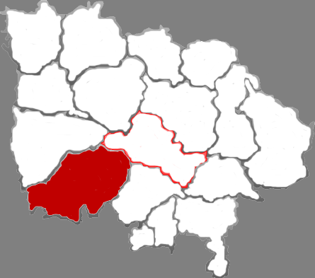 Location of Xiangning county in Linfen City, China